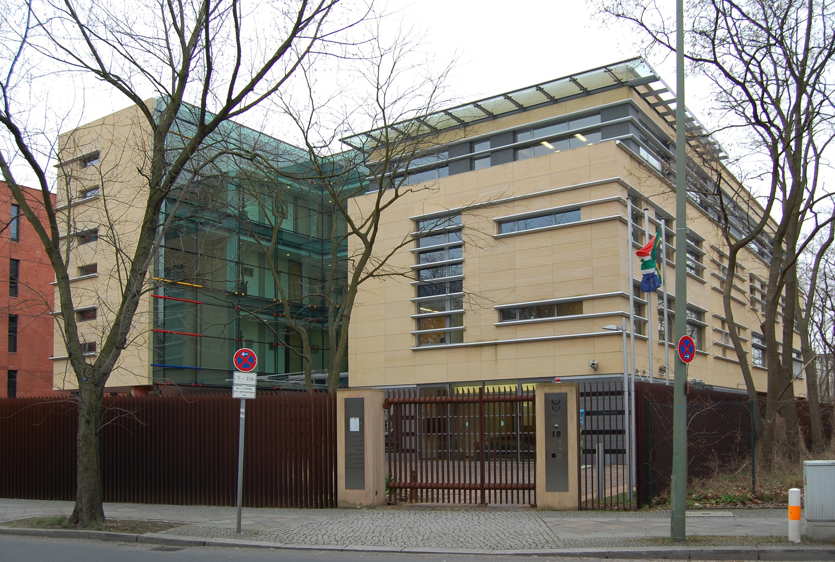 South African Embassy in Berlin